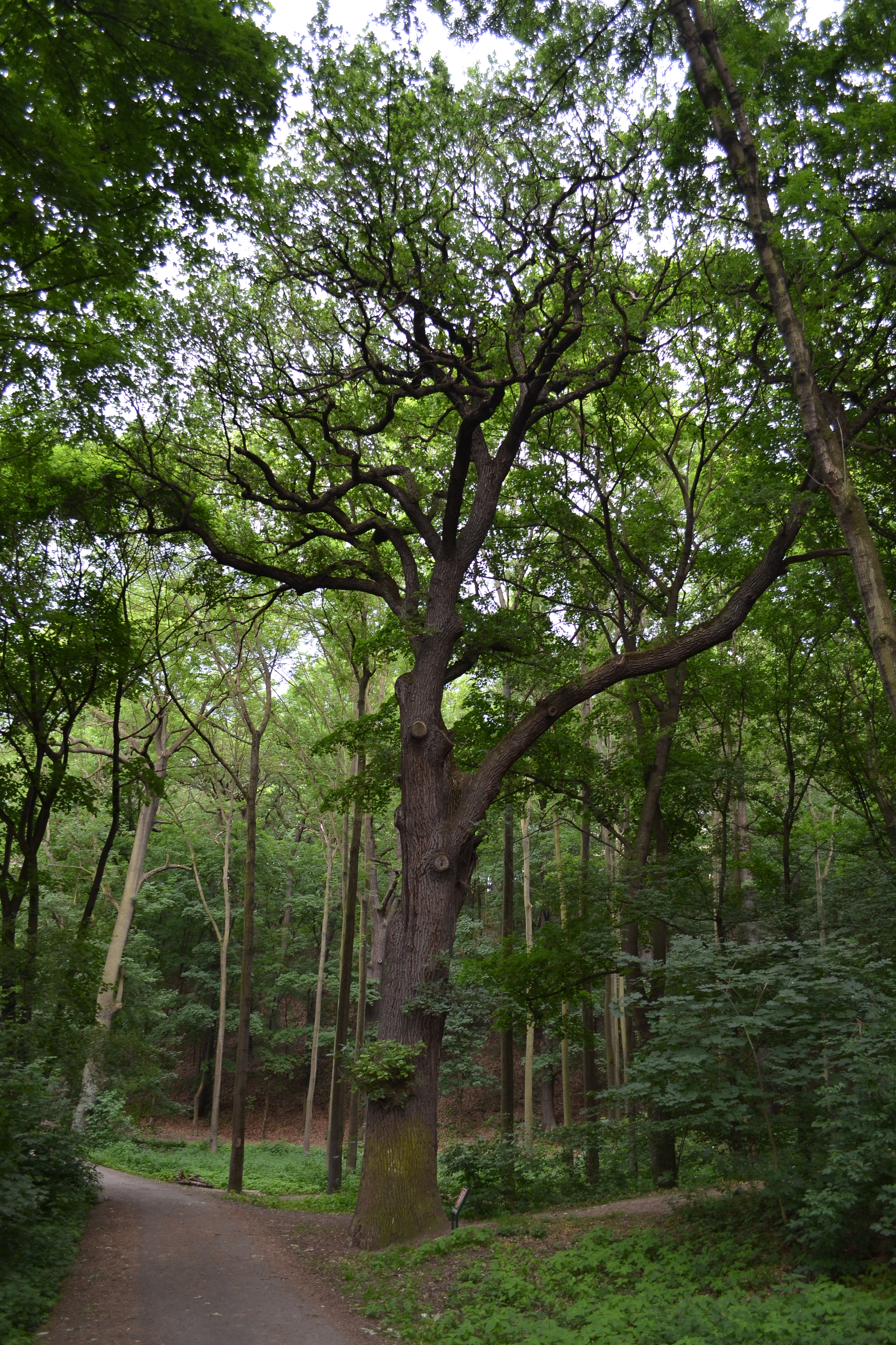 Famous English Oak (Quercus robur) in park Cibulka in Prague, Czech Republic.